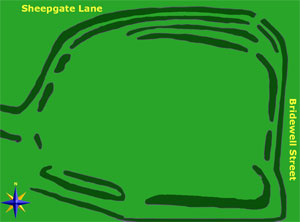 Diagrammatic map of Erbury, an Iron Age fortified settlement; also known as Clare Camp, Clare, Suffolk